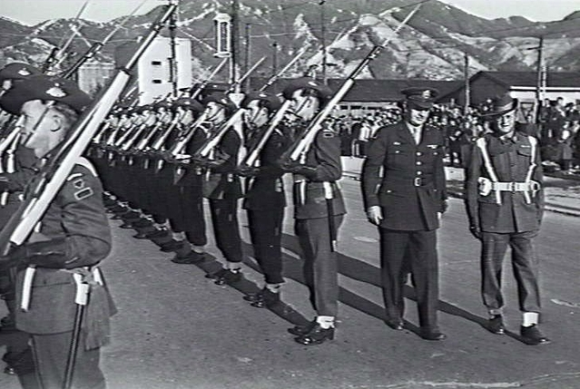 AWM Caption: KURE, JAPAN. 1946-11-14. LIEUTENANT GENERAL R. L. EICHELBERGER, GENERAL OFFICER COMMANDING UNITED STATES 8TH ARMY, AND GUARD COMMANDER QX16128 CAPTAIN K. G. TURBAYNE INSPECTING THE GUARD OF HONOUR PROVIDED BY "B" COMPANY, 66TH BATTALION, DURING HIS VISIT TO WITNESS A DEMONSTRATION BY BRITISH COMMONWEALTH AIR FORCES FIGHTER AIRCRAFT.